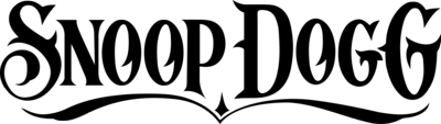 Logo for rapper/singer Snoop Dogg, used since 2009.